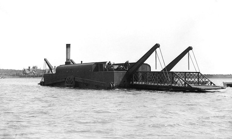 Reproduction ID: P27499 Maker: Smiths Suitall Ltd Date: 1906 Materials: Gelatine dry plate